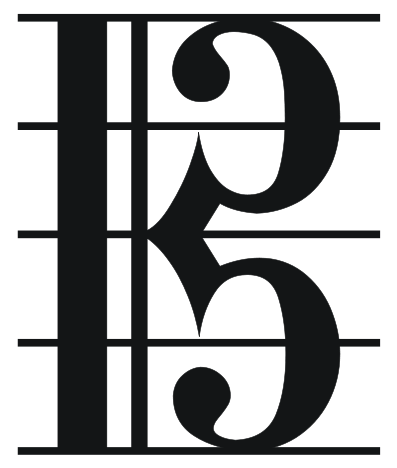 The musical symbol 'C clef'.